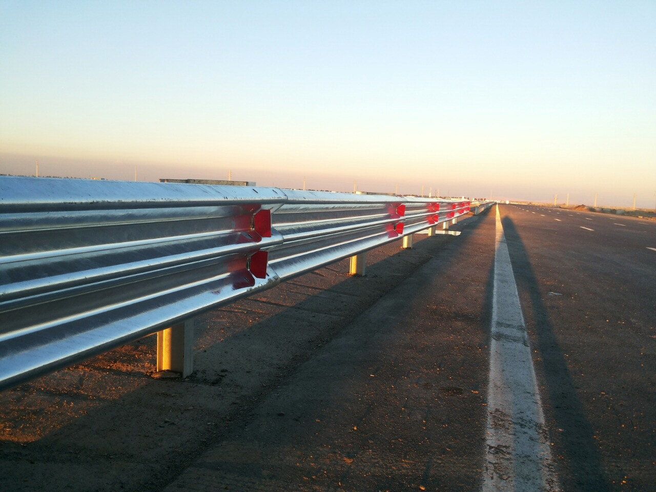 guardrail in higway